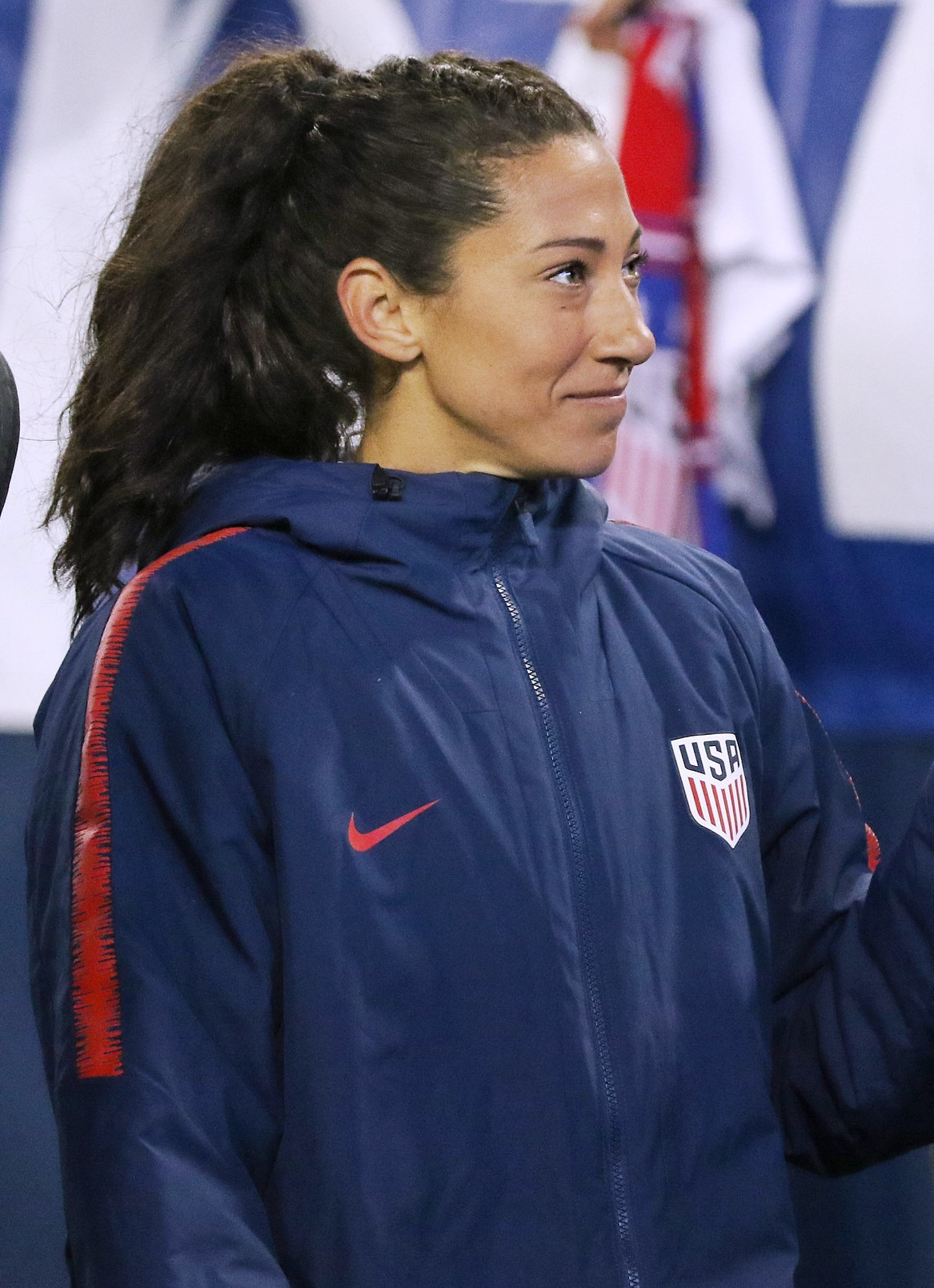 Christen Press with the USWNT after their SheBelieves Cup match against England on March 2, 2019, in Nashville.